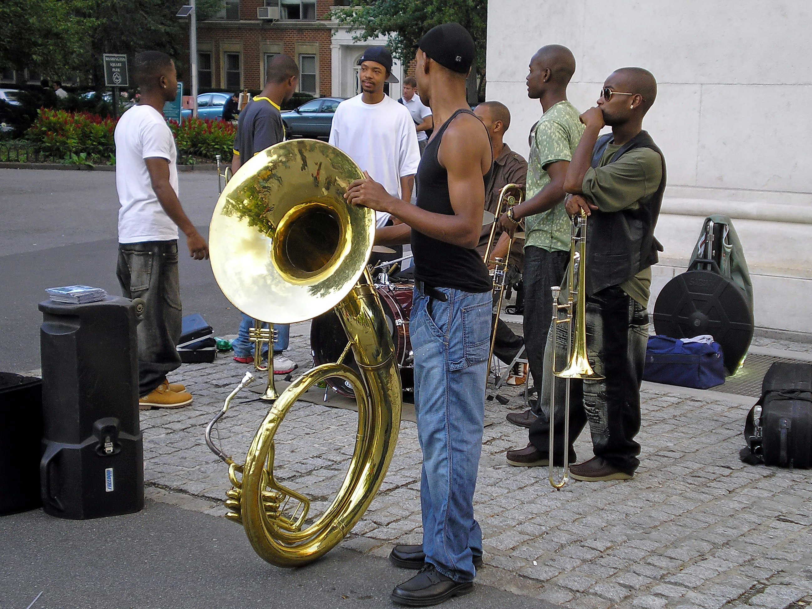 Horn players (Hypnotic Brass Ensemble band) in Washington Square by David Shankbone, New York City